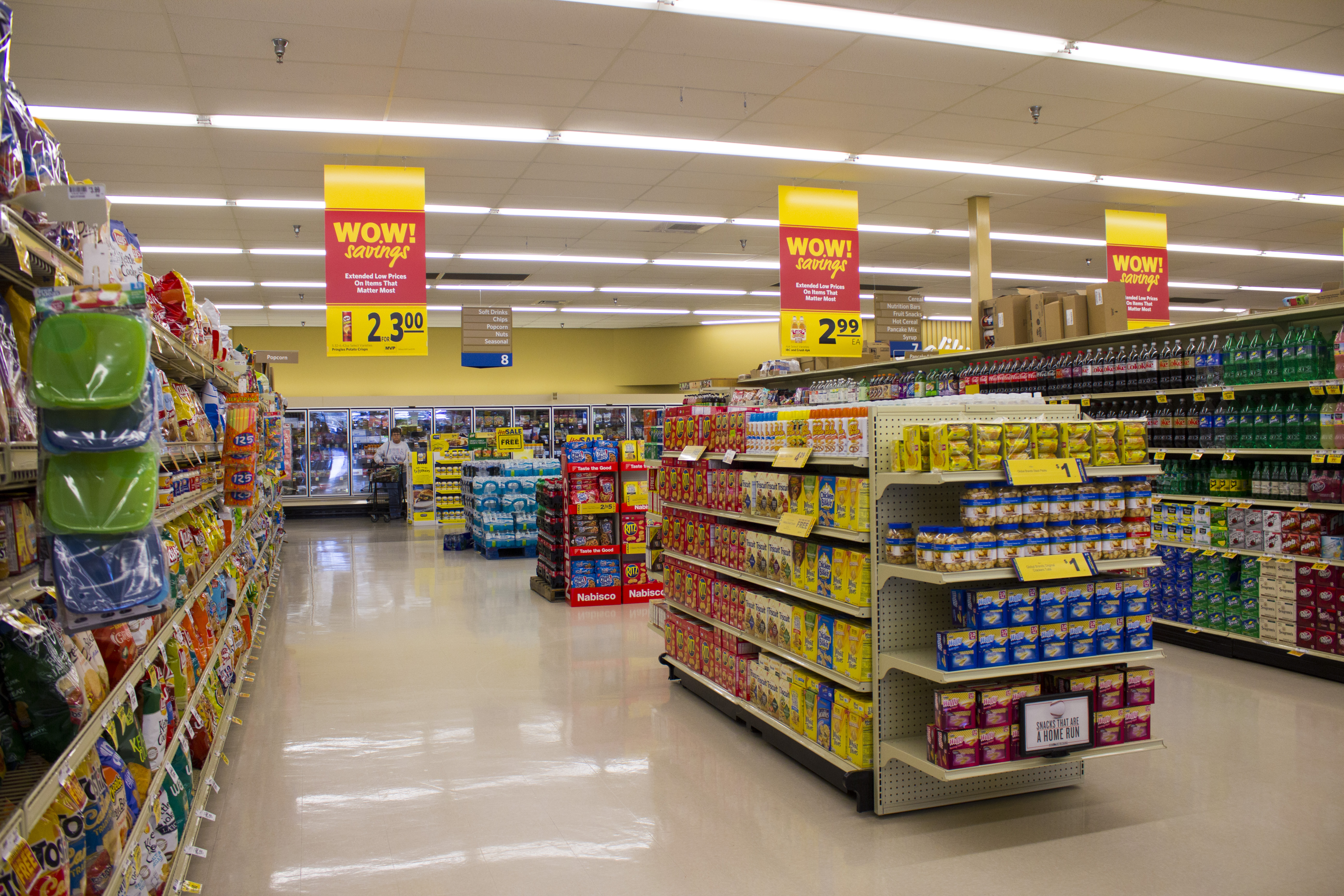 This is Food Lion #1274, located at 5543 N. Croatan Hwy in Southern Shores, NC.